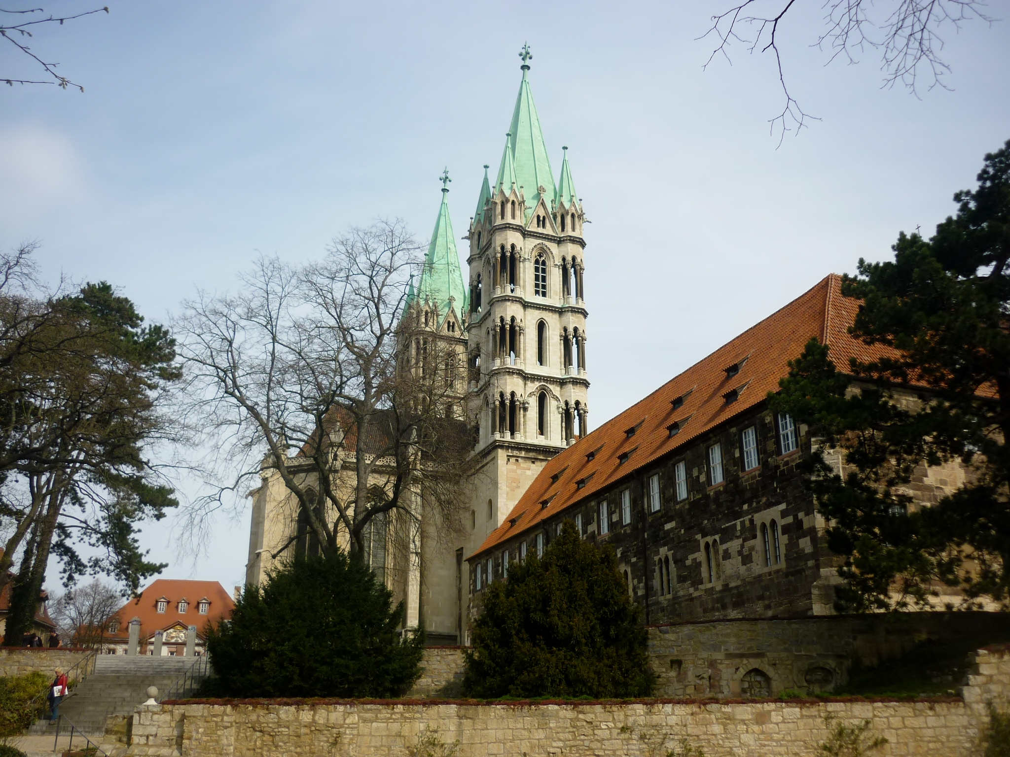 Naumburg Cathedral, West choir and towers